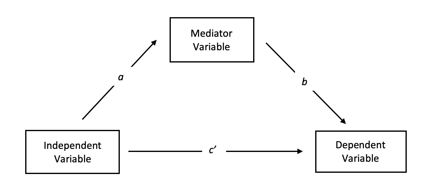 A simple mediation model with labels.